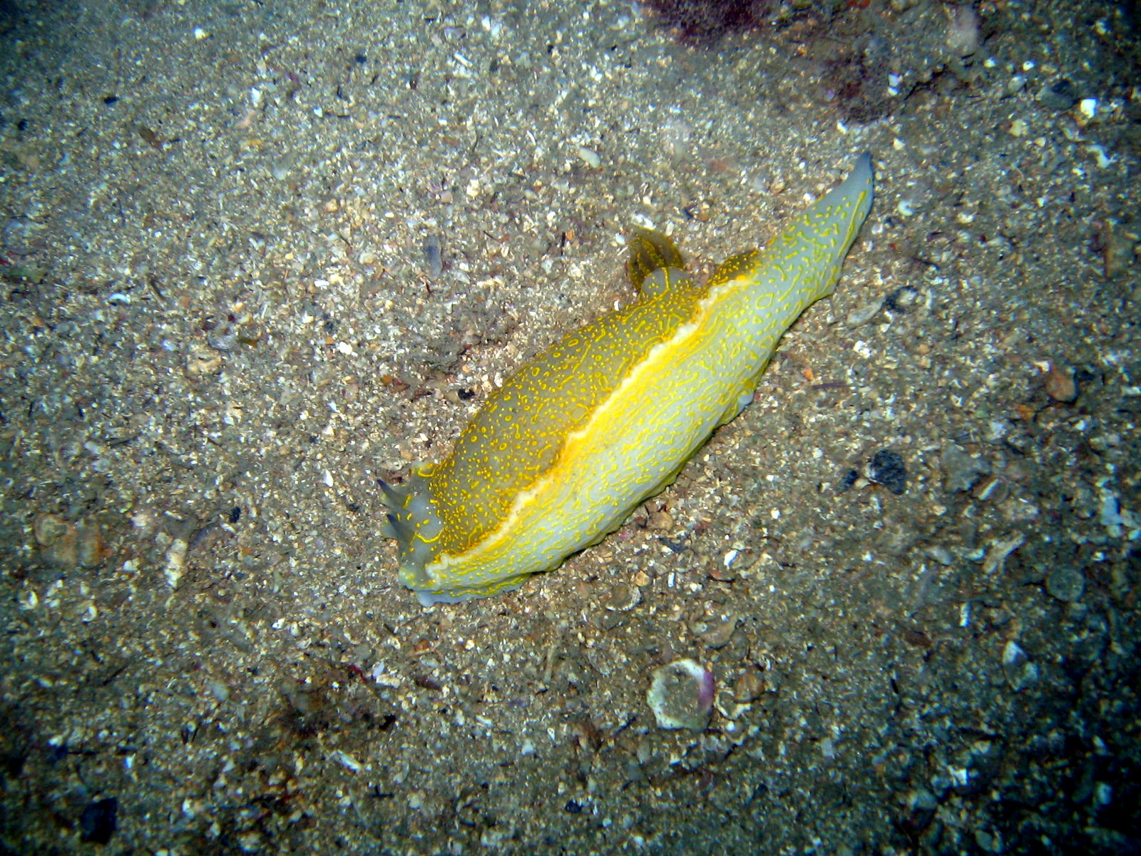 Photo of a Felimare picta (Schultz in Philippi, 1836) (synonym: Hypselodoris picta picta) at 40 meter deep in the calanque of Niolon at Le Rove